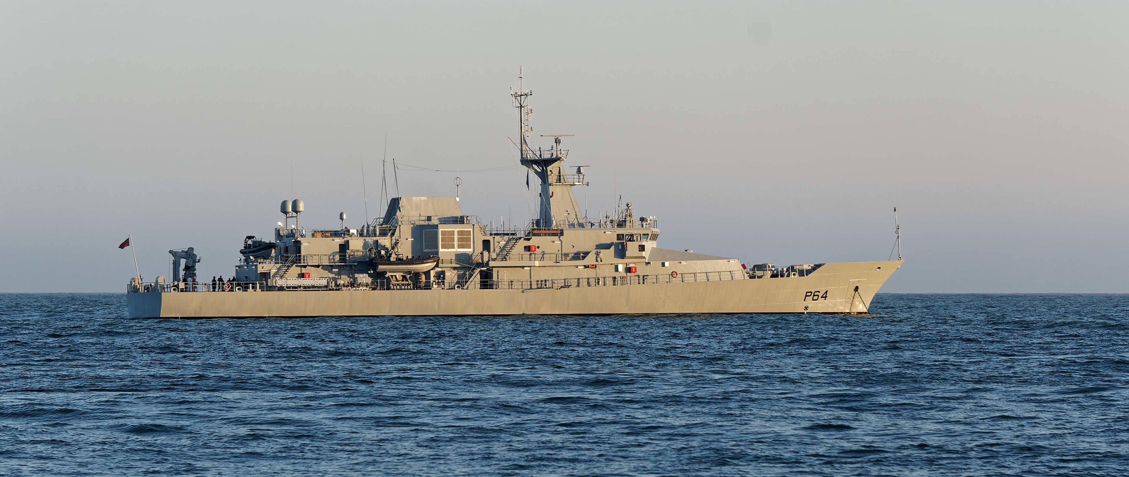 Irish Navy P60 OPV anchored off Ilfracombe, North Devon, UK